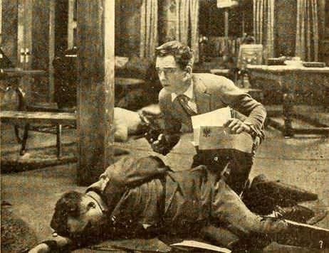 Still from the American film Whom the Gods Would Destroy (1919) with Jack Mulhall holding a gun, on page 531 of the March 26, 1919 Moving Picture World.